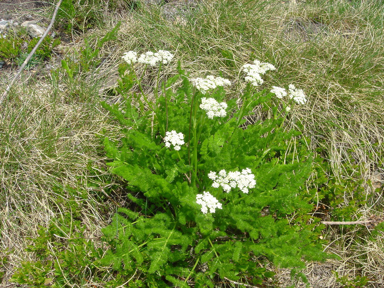 Meum athamanticum